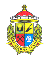 Coat of arms of Tran, Bulgaria